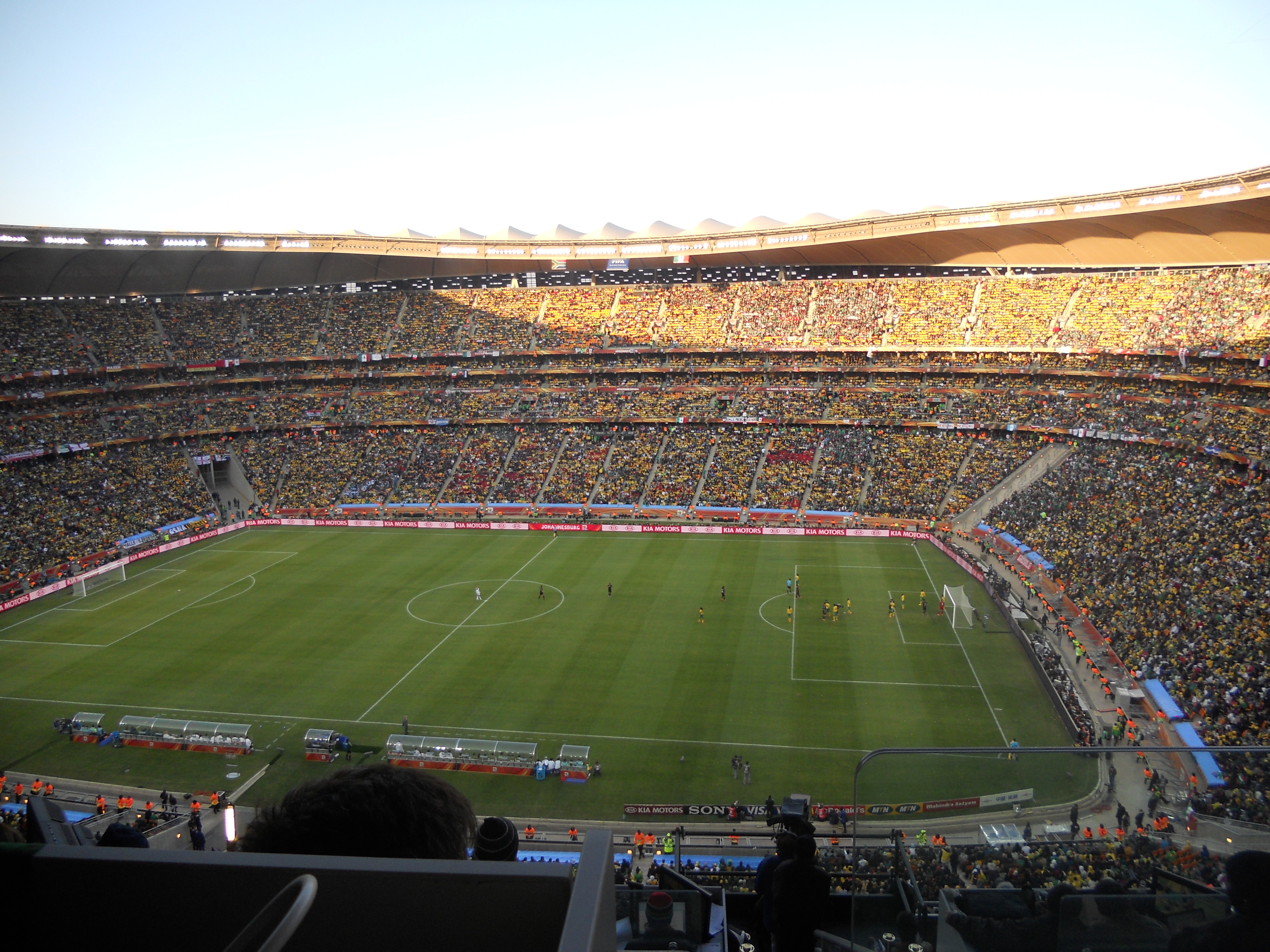 Football (Soccer) World Cup 2010 opening match between South Africa and Mexico on 11 June 2010 at Soccer City Stadium, Johannesburg